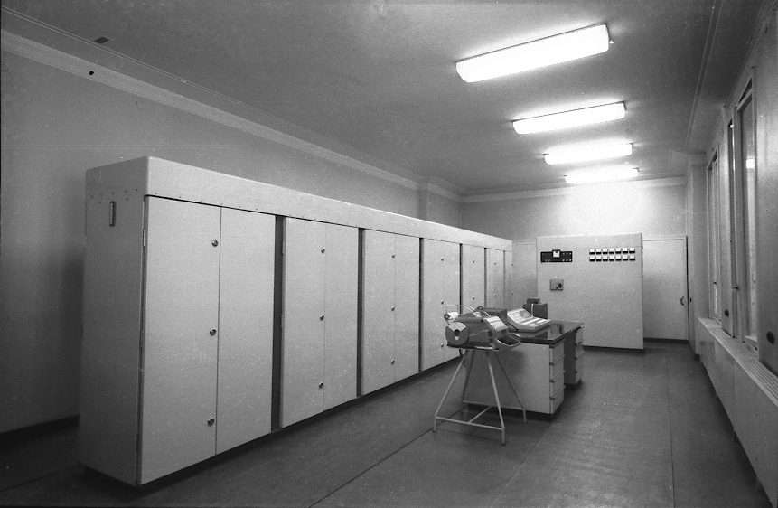 This photos is from my book:Racunari TIM,p.164,N.Knjiga,Belgrade 1990. I release copyright into the public domain or under CCSA 3.0 license. This is CER-10 computer at the Tanjug building 1963. CER-10 was the first Yugoslav digital computer originally self-made at the Institutes BK- Vinca and IMP-Belgrade in 1960.